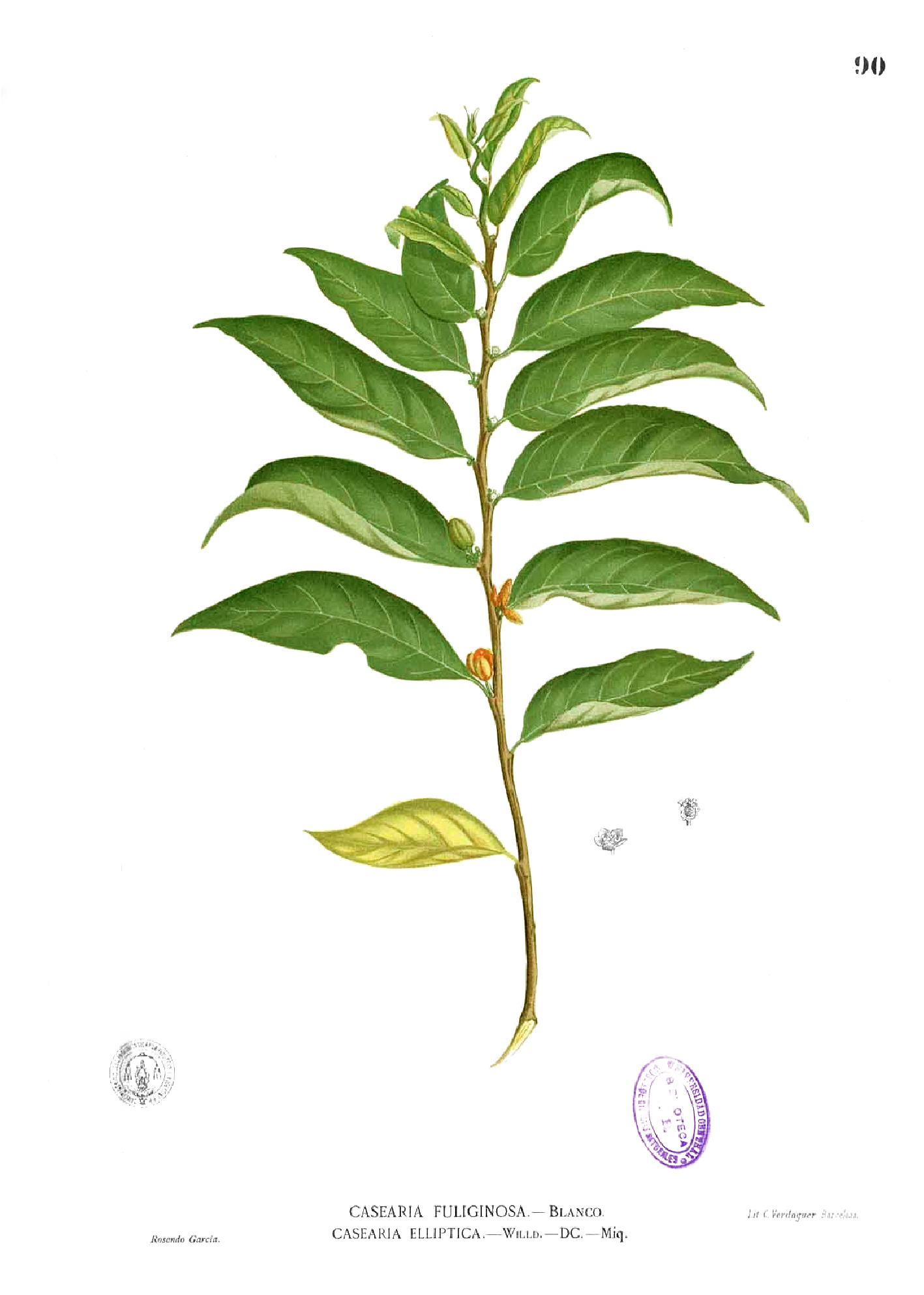 Plate from book